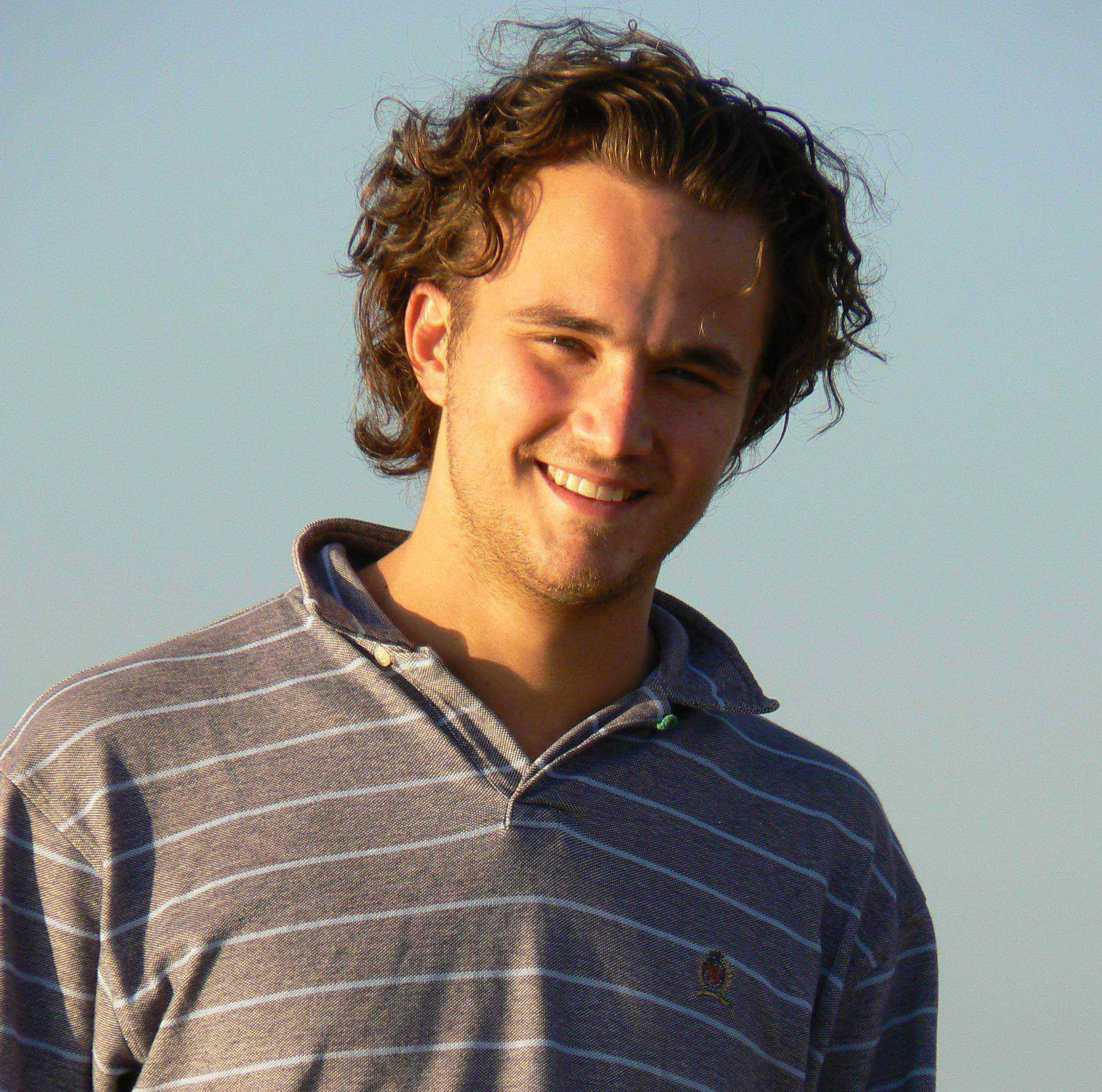 Dutch actor Joris Putman. Picture made by Kees Putman Sept. 2006